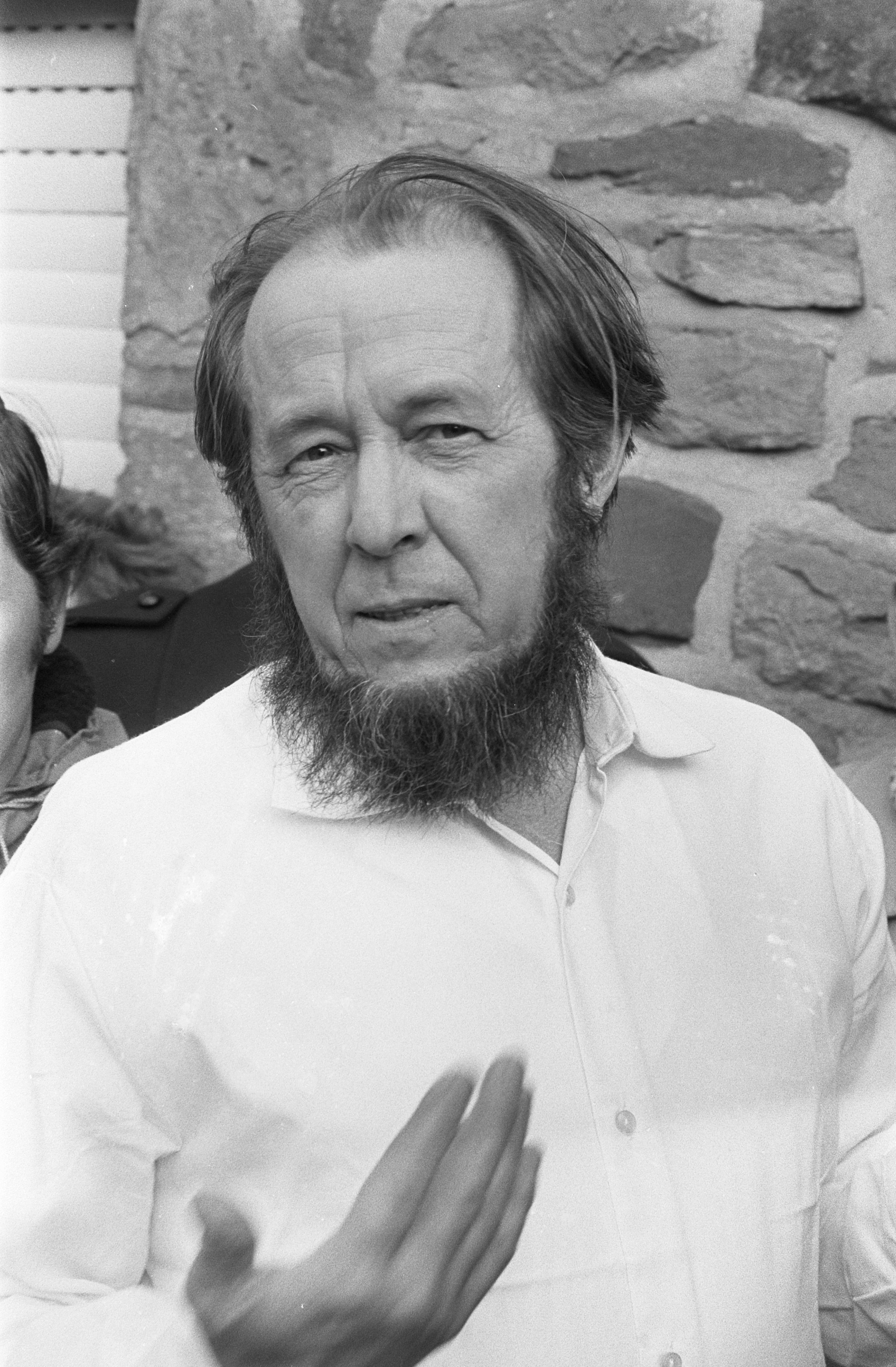 De Russische schrijver Alexander Solzjenitsyn is uitgewezen uit Rusland en verblijft nu in het huis van Heinrich Böll